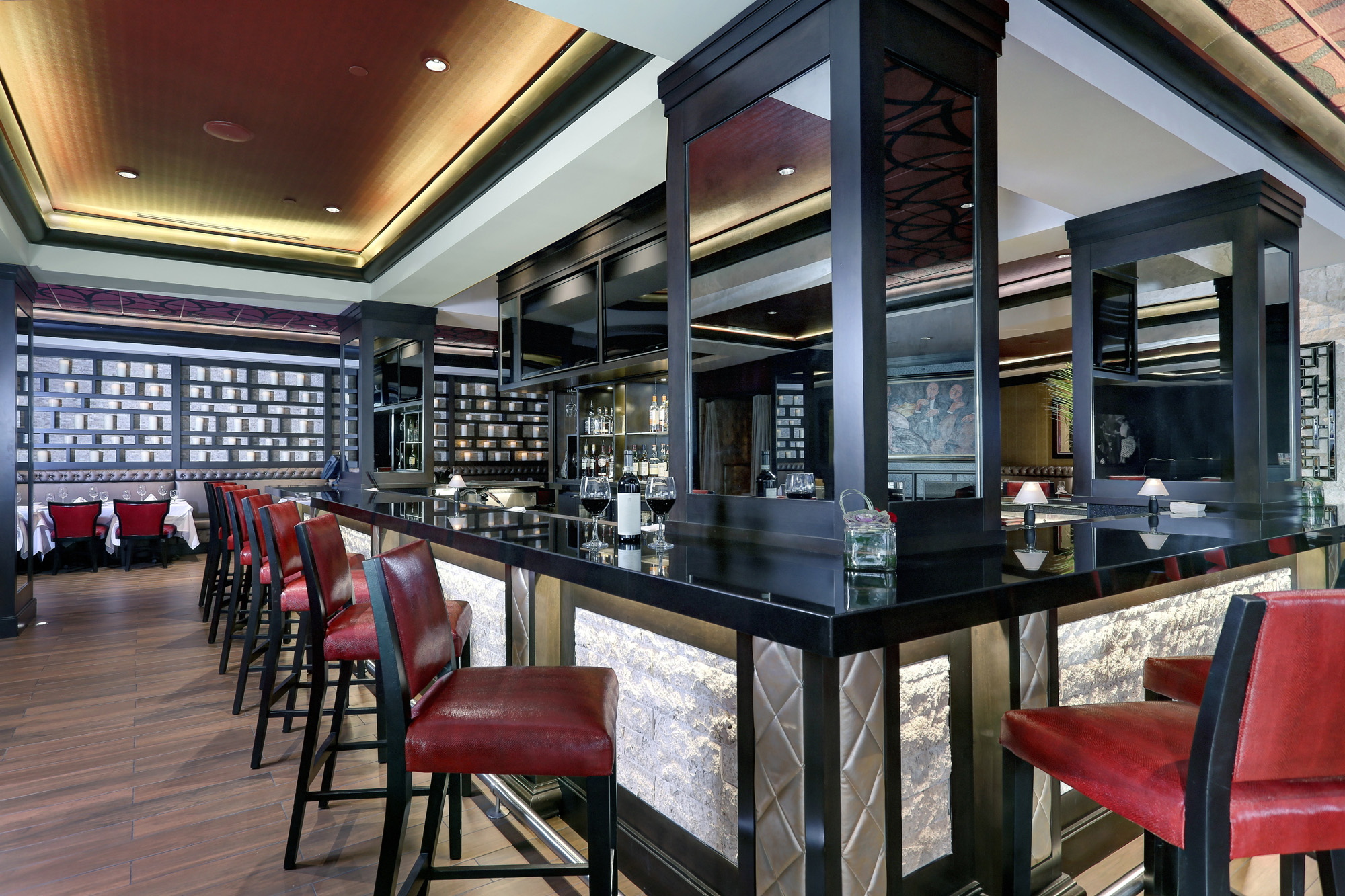 Four Points Sheraton Fallsview, Ruth's Chris